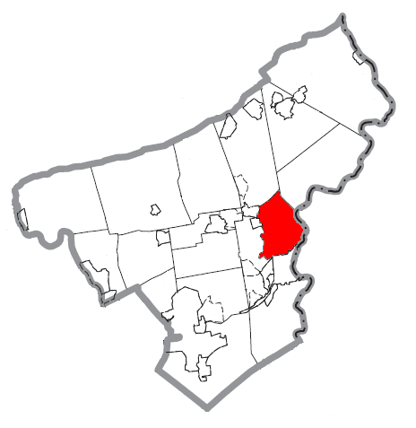 A map of Northampton County showing Forks Township, Pennsylvania highlighted on the map.